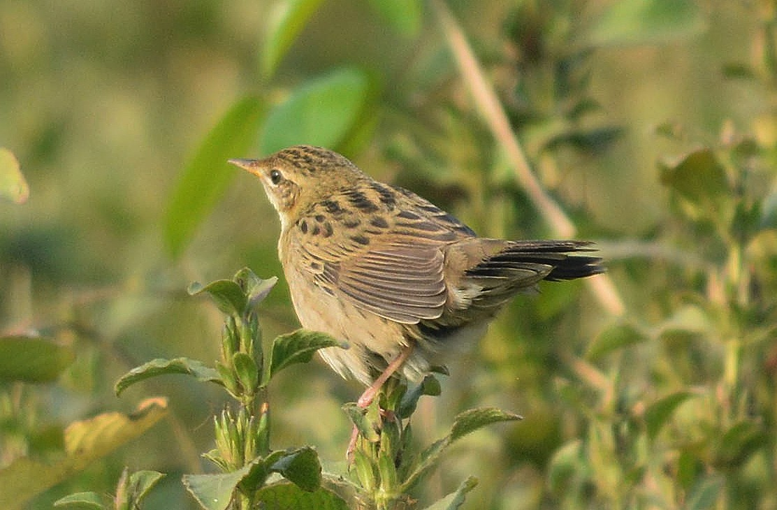 Common Grasshopper Warbler Locustella naevia. Clicked at Dombivli (East) in Maharashtra, India.